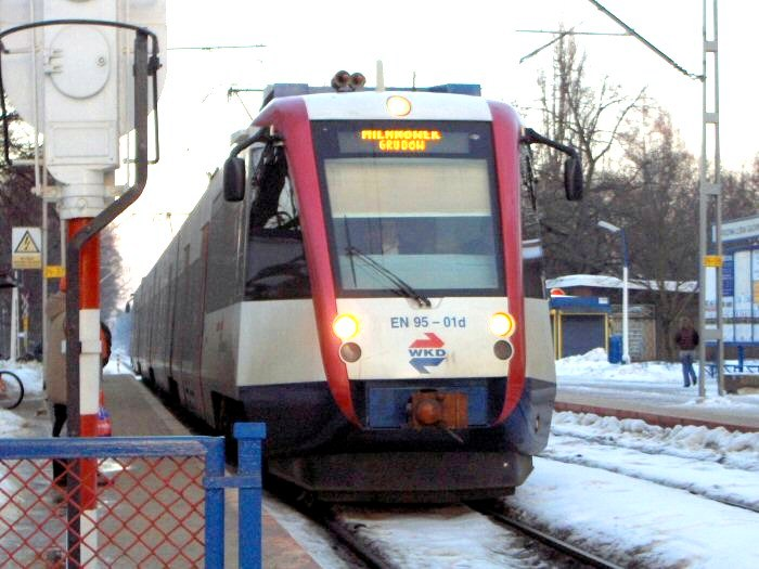 Picture of WKD train (EN95).